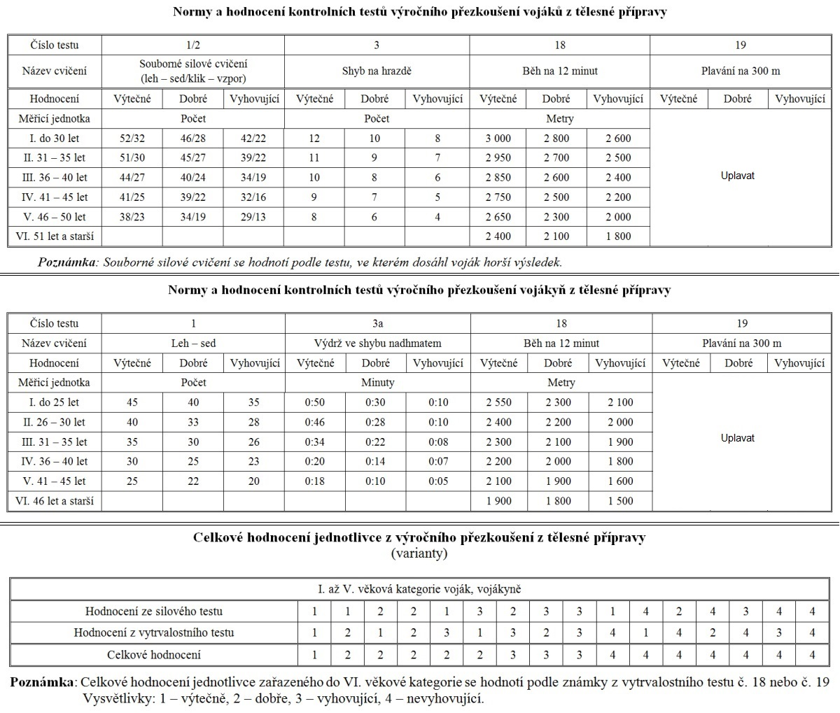 Selection 43rd Airborne Battalion (CZE), PT test, Group B